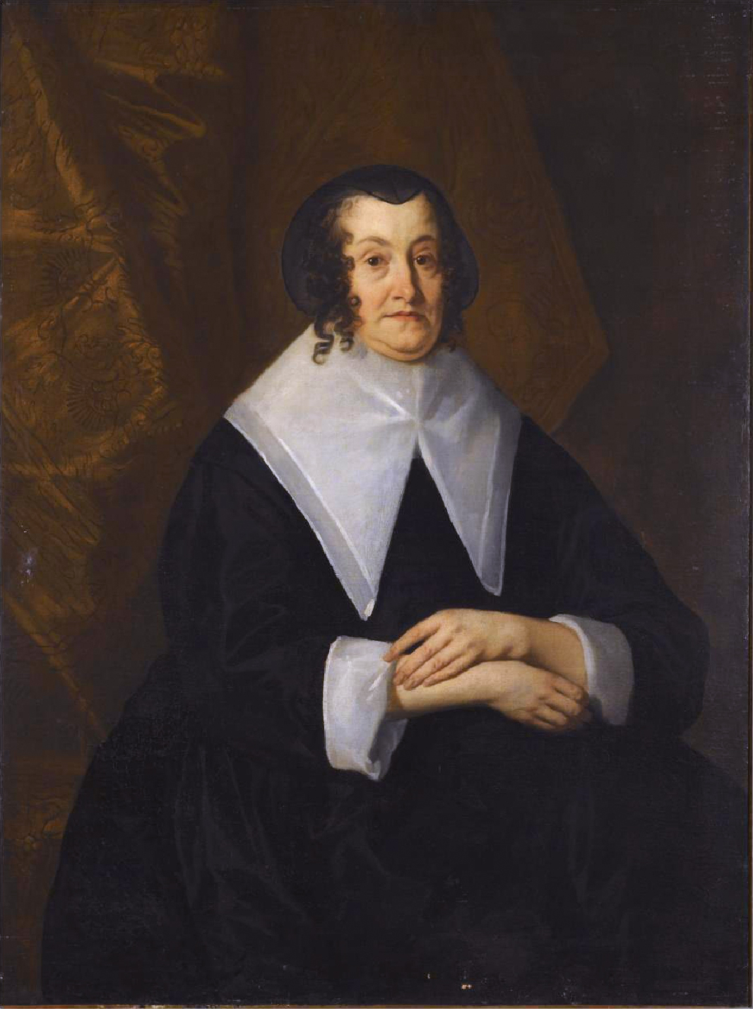 Julia Fasey, Lady Crewe